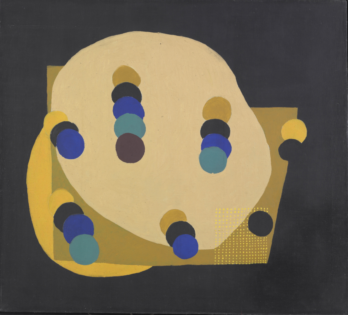 Autopsy, oil on canvas, 87 x 97 cm (1967)